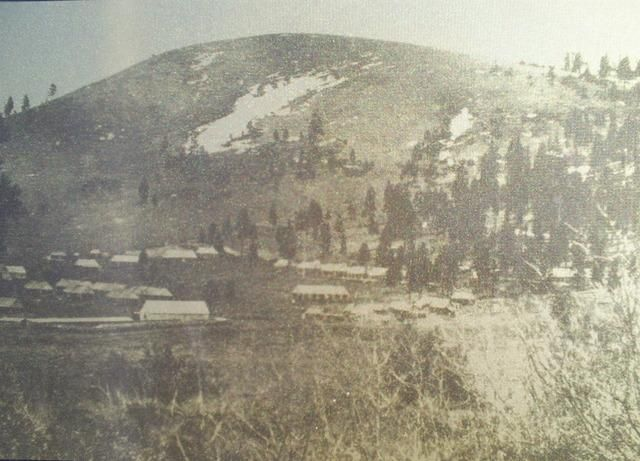 New Camp Warner near Honey Creek in Lake County, Oregon in 1873, Photo Taken by Ryan Journey of New Camp Warner plaque in 2006